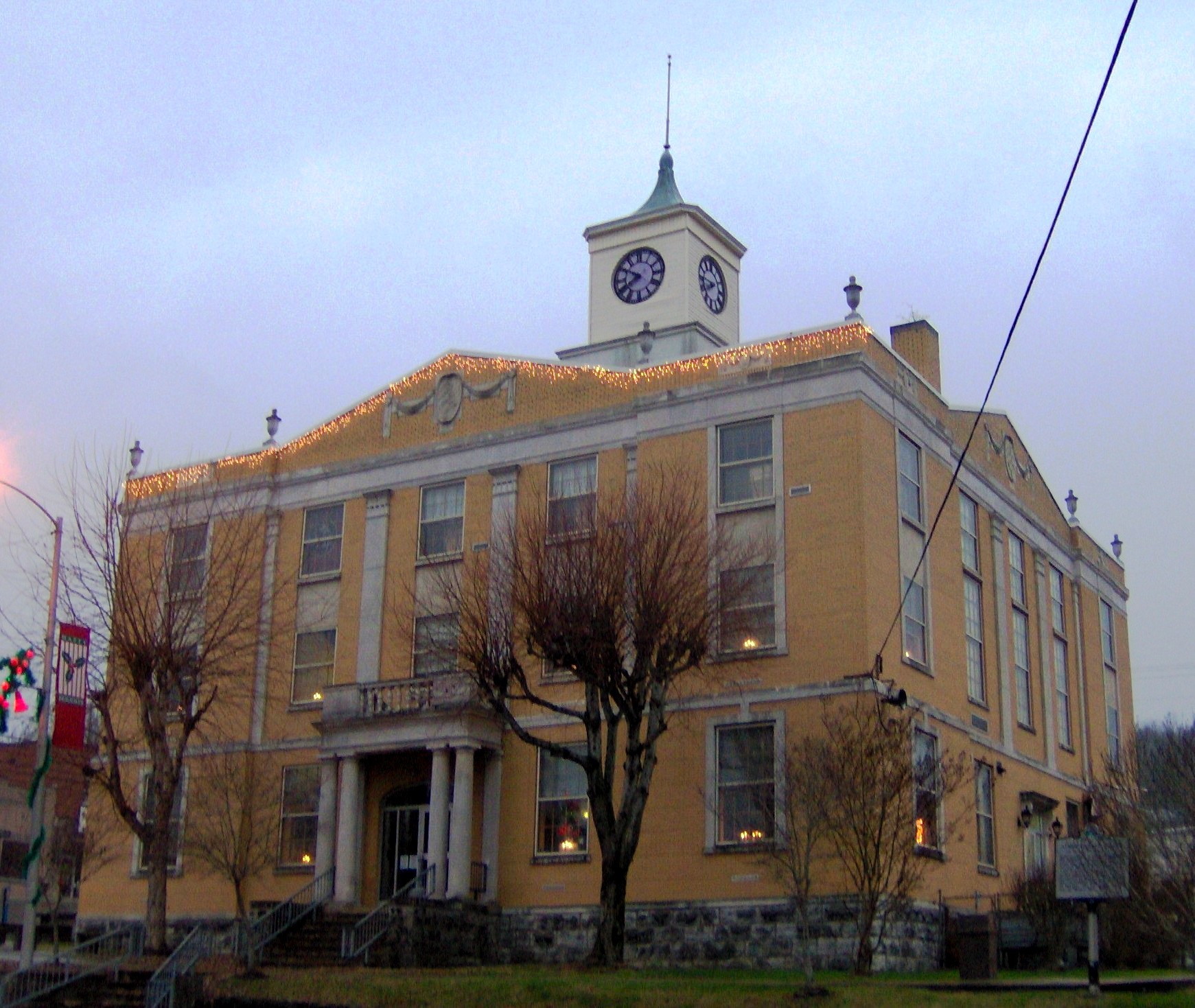 The Jackson County Courthouse in Gainesboro, Tennessee. The courthouse is situated at the center of the town square, and which has been placed on the National Register of Historic Places.